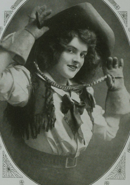 Mayme Gehrue, from a 1909 publicity photograph. A white woman with dark curly hair, wearing a western costume with gloves and hat.